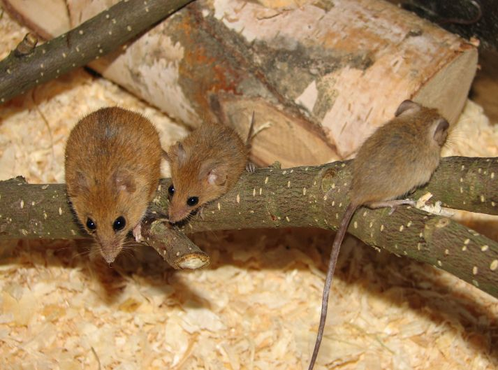 Dendromus mystacalis, female with young photo by Kenneth Worm